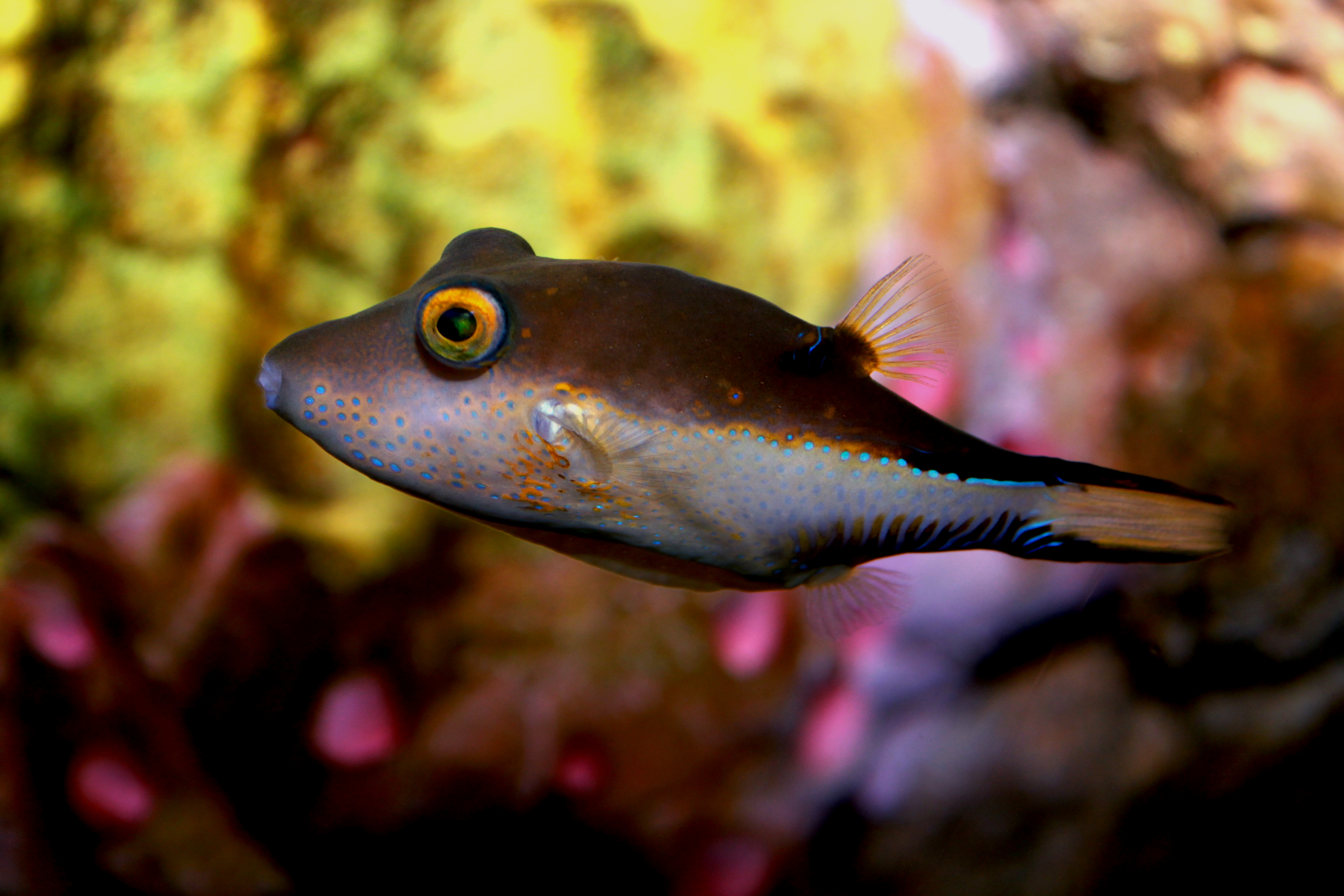 Sharpnose puffer Canthigaster rostrata